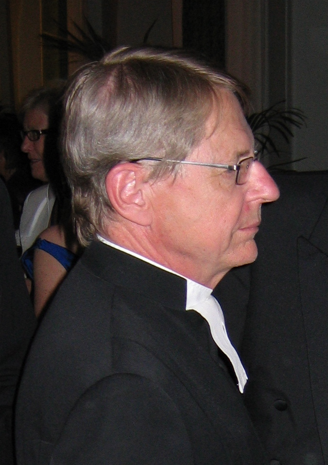 Håkan E Wilhelmsson (born 1948), Swedish clergyman; dean of Lund since 2002.